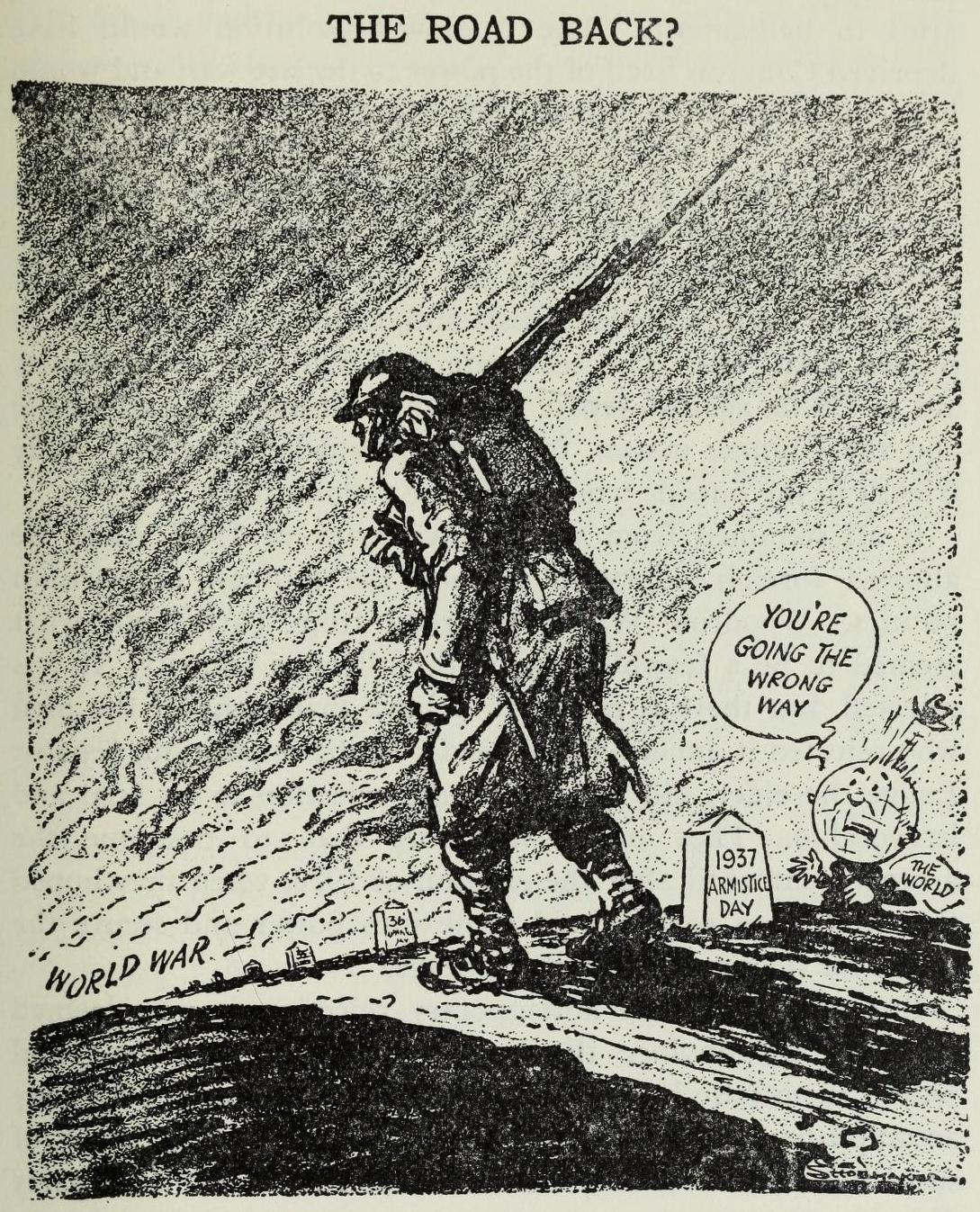 "The Road Back?", an editorial cartoon commenting on the looming threat of a second World War. Winner of the 1938 Pulitzer Prize for Editorial Cartooning.